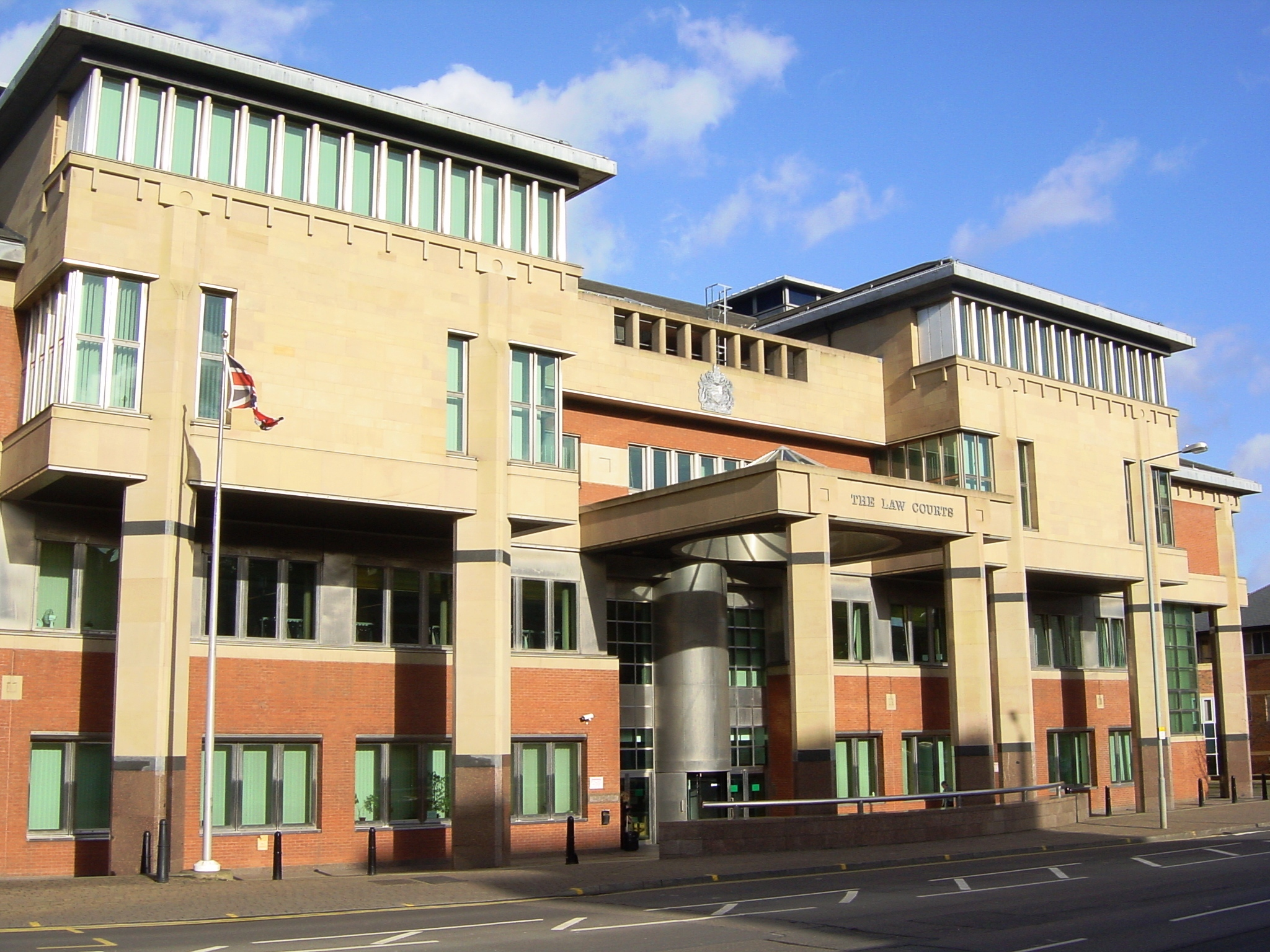 Sheffield Law Courts, 50 West Bar, Sheffield; the home of Sheffield Crown Court and Sheffield County Court